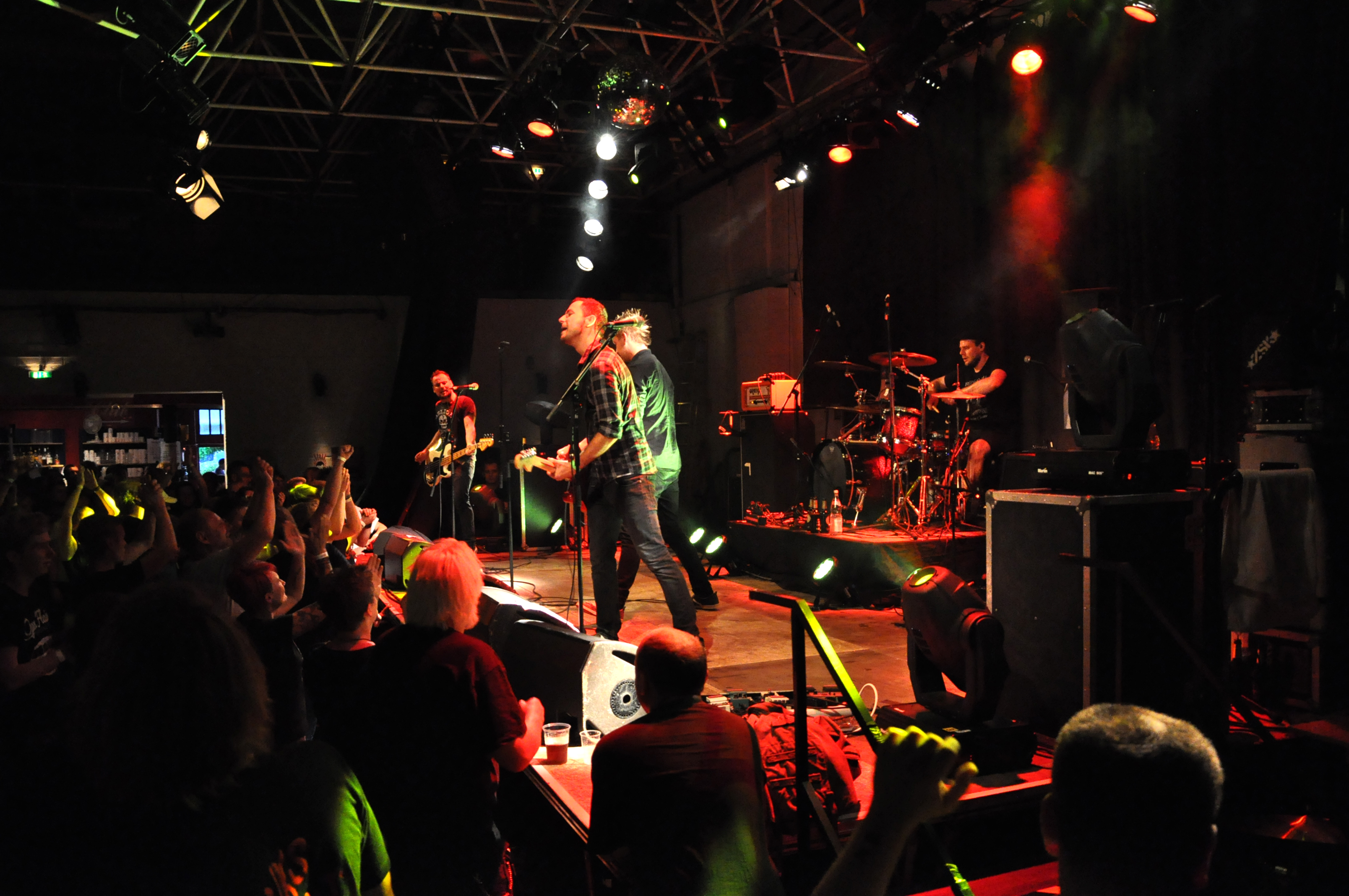 Radio Havanna at Kein Bock auf Nazis Festival, Düsseldorf 2013